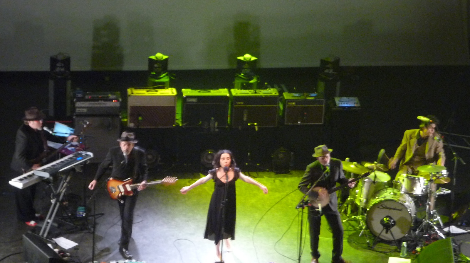 John Parish and Polly Jean Harvey performing live in 2009.